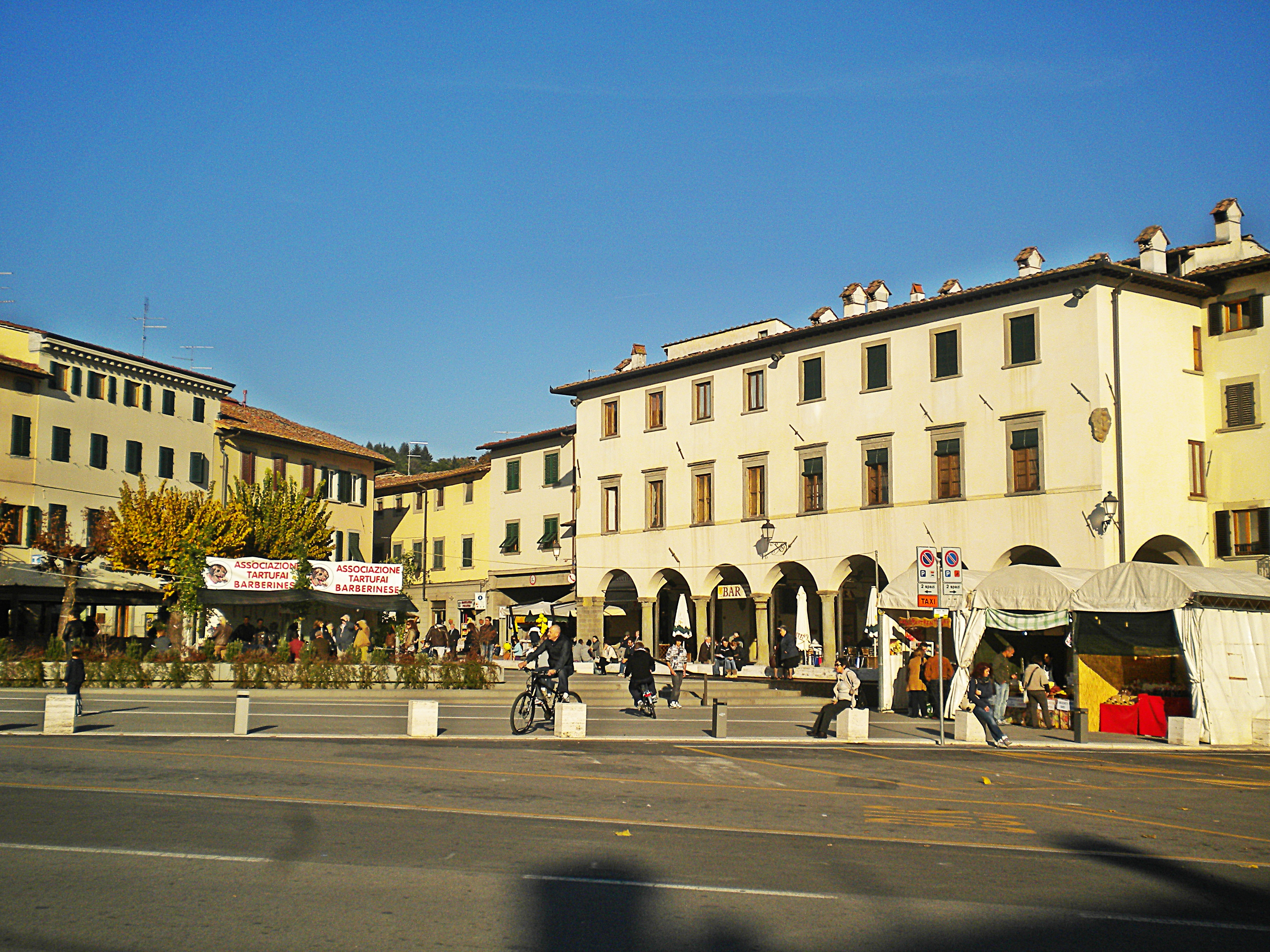 Cavour square